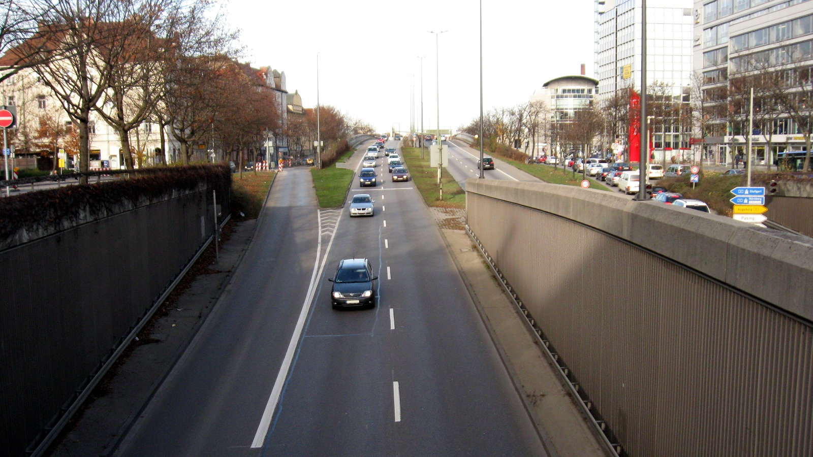 Trappentreustraße at the northern entrance of the tunnel (from above)